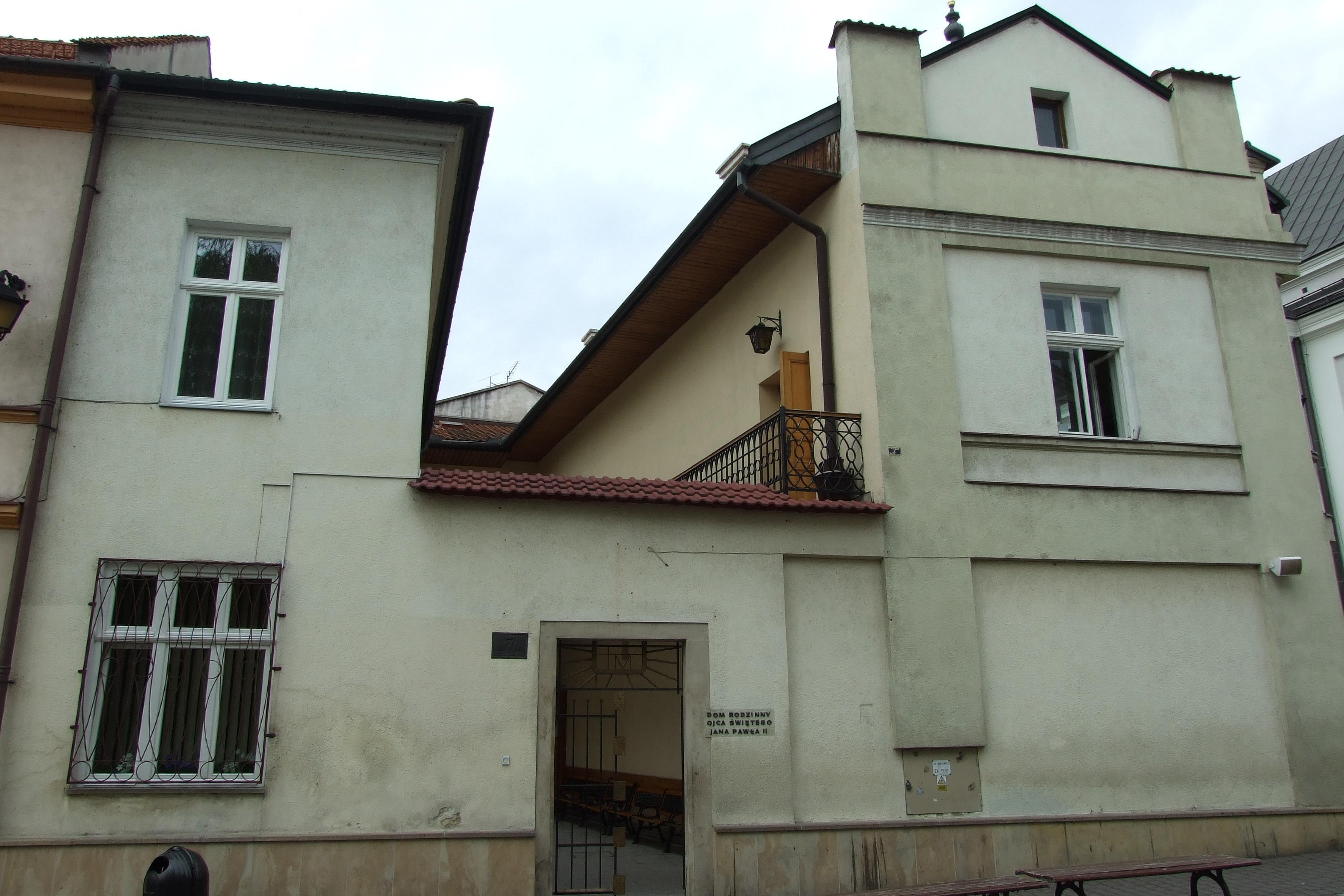 The native home of the Holy Father John Paul II